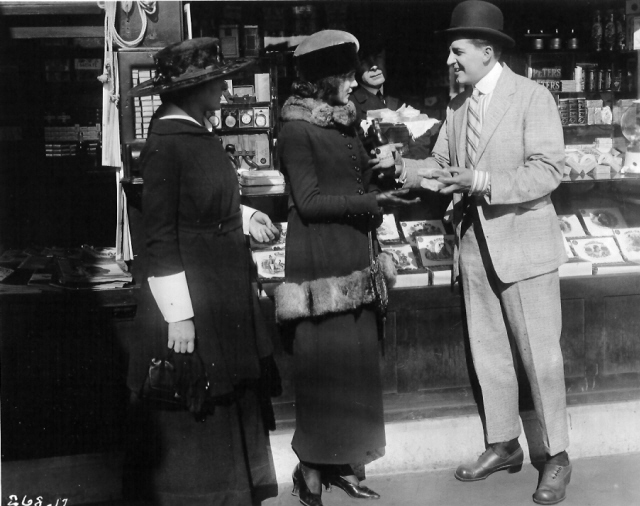 Lois Wilson (center) and Bryant Washburn (right) in It Pays to Advertise (1919) - cropped screenshot.